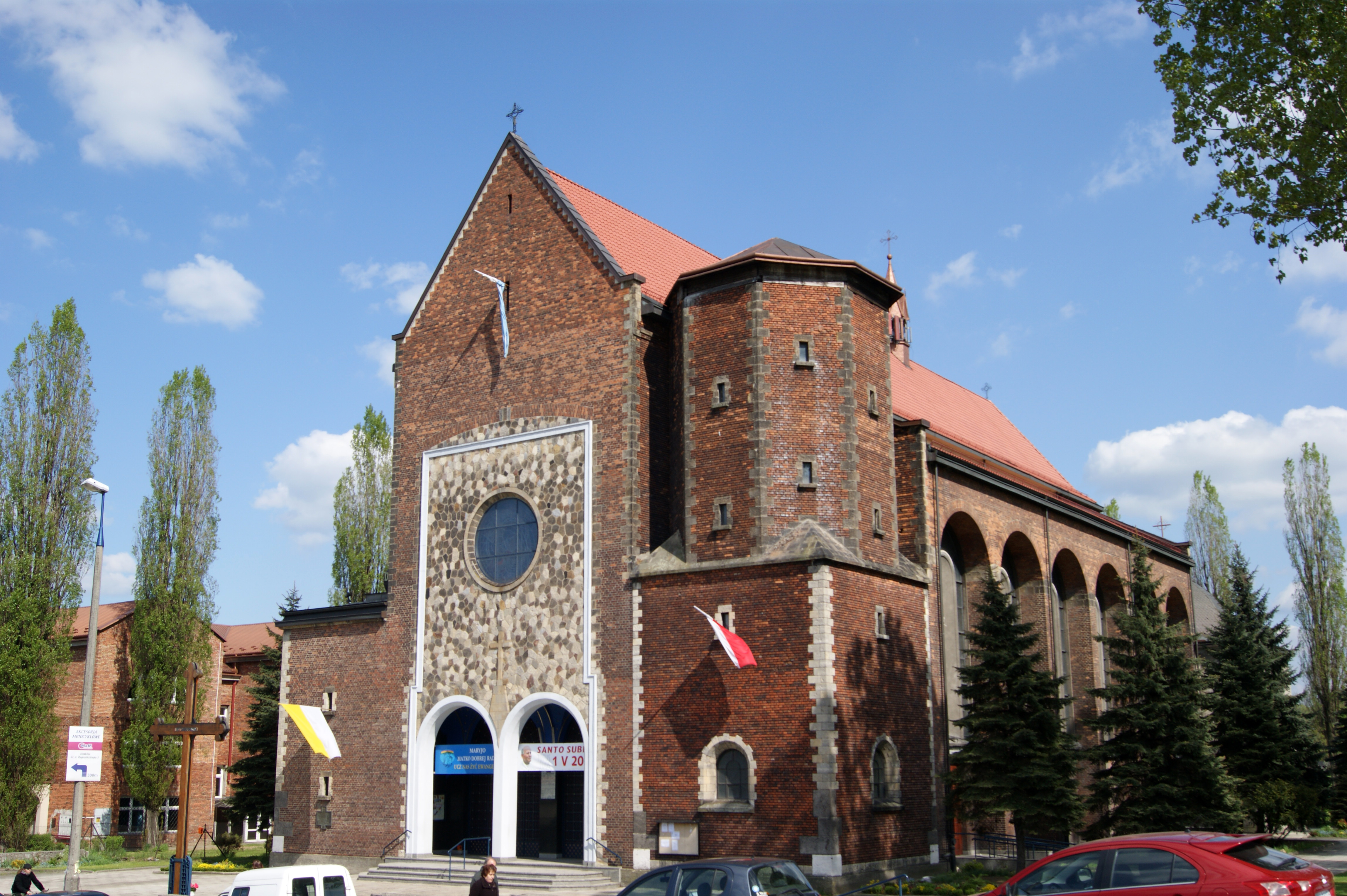 Our Lady of Good Counsel Church, 35 Prosta street, Prokocim, Krakow, Poland